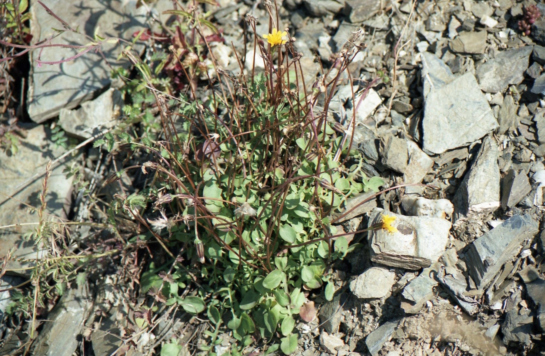 From a visit to Sardinia in the first week of June 2000.